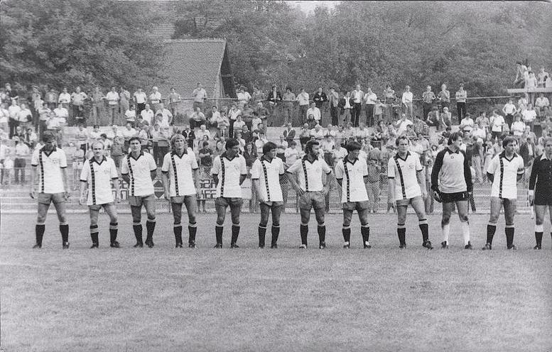 Dorog vs Szekszard match in 1982 in Dorog.